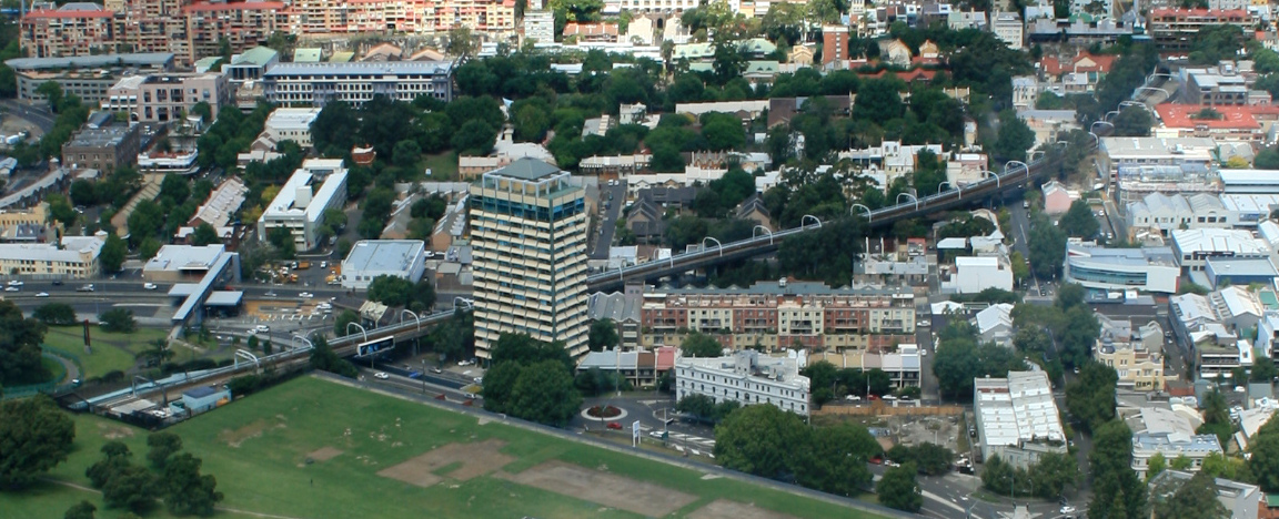 Viaduct crossing Woolloomooloo between Martin Place and Kings Cross stations on the Eastern Suburbs Railway, Sydney, Australia